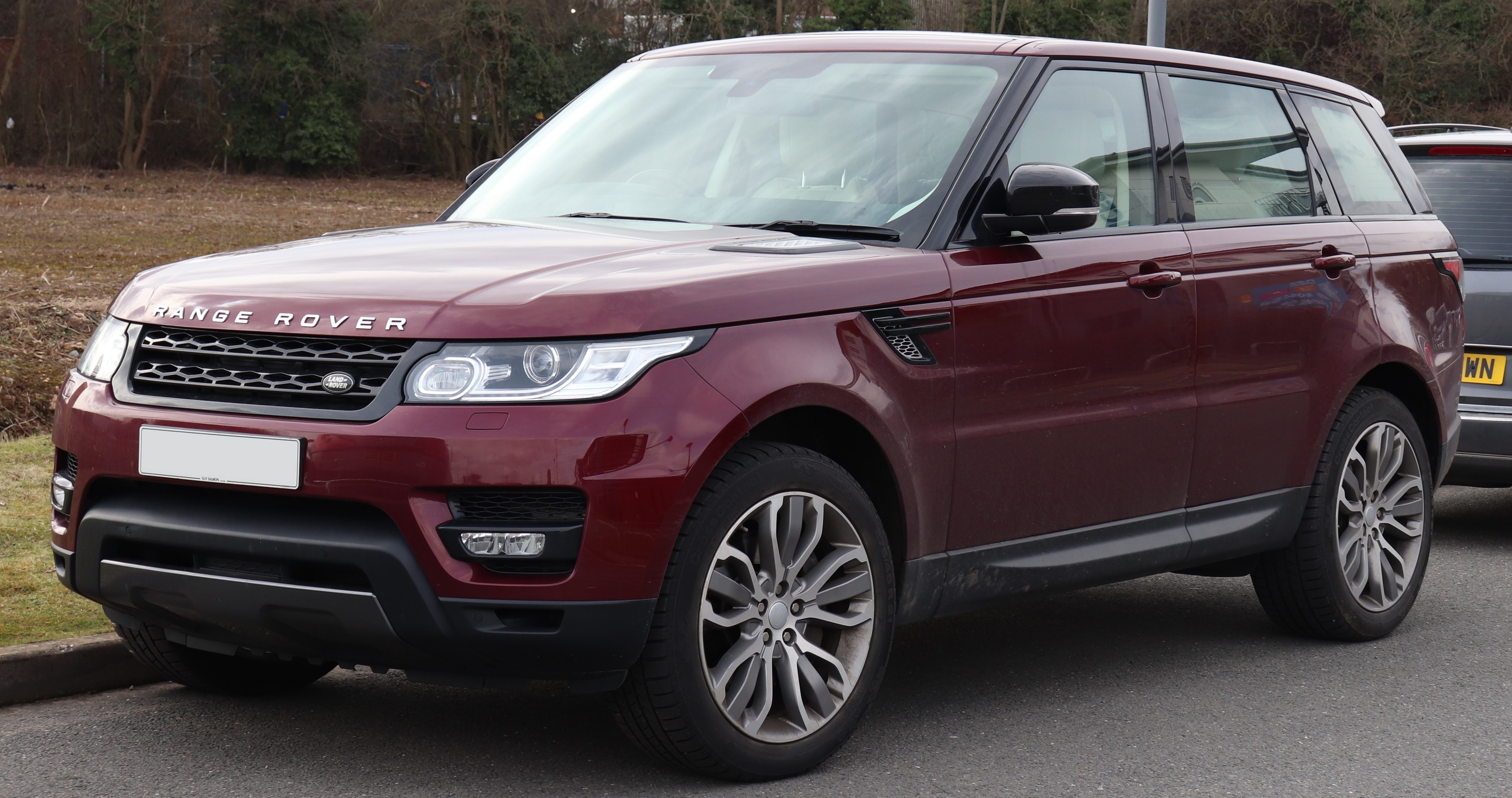 2015 Land Rover Range Rover Sport HSE 3.0 Front Taken in Leamington Spa